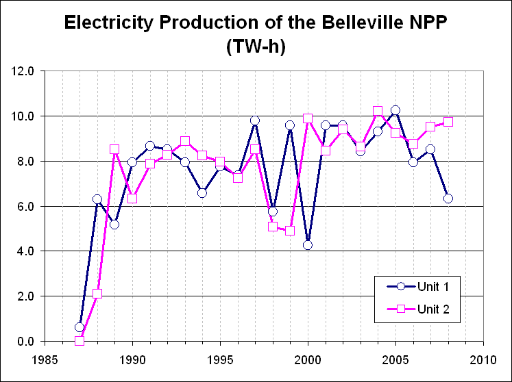 Energy production of the Belleville Nuclear power plant, taken from the PRIS database